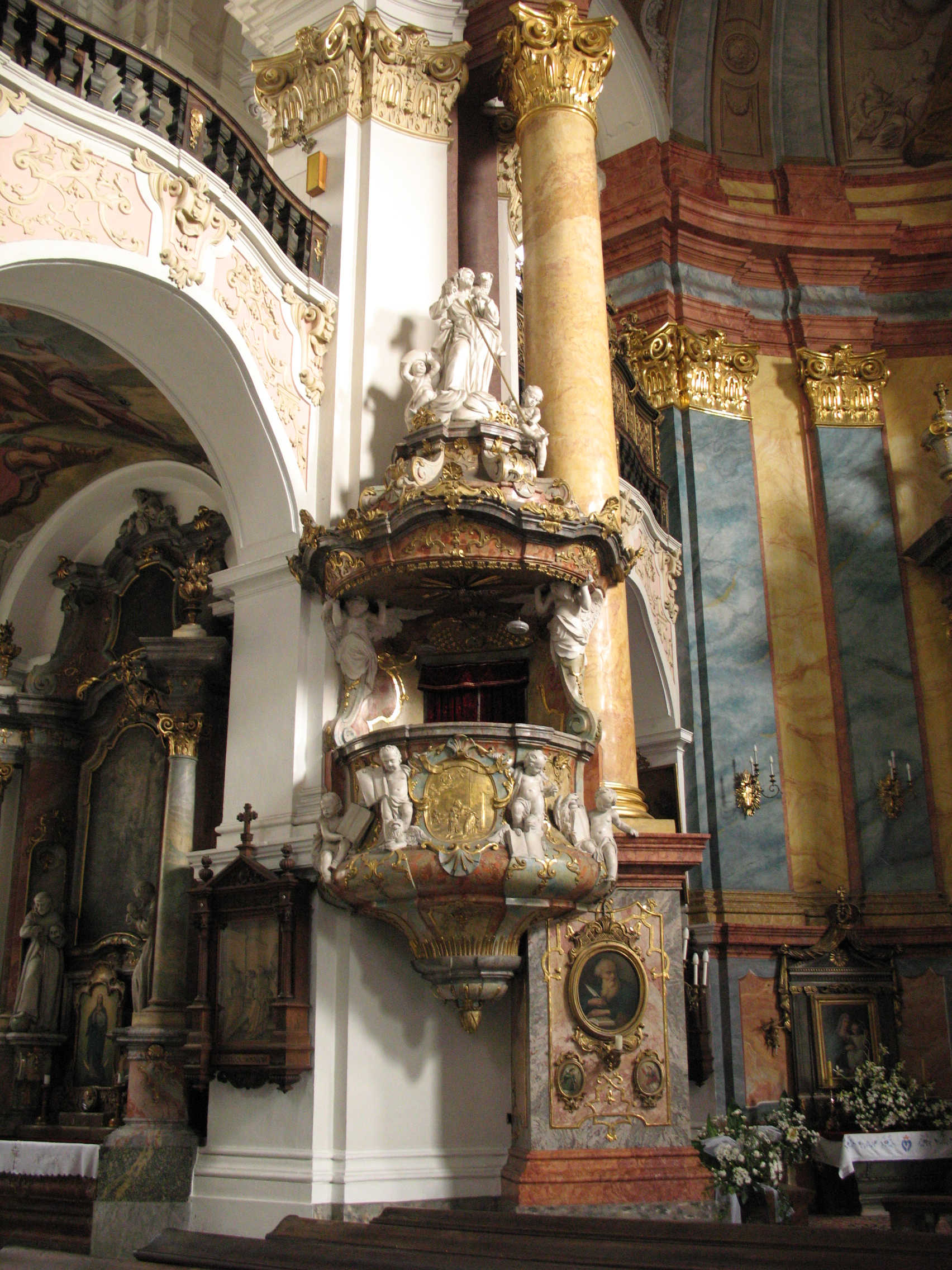 Saints Peter and Paul Church in Nysa, Upper Silesia, Poland